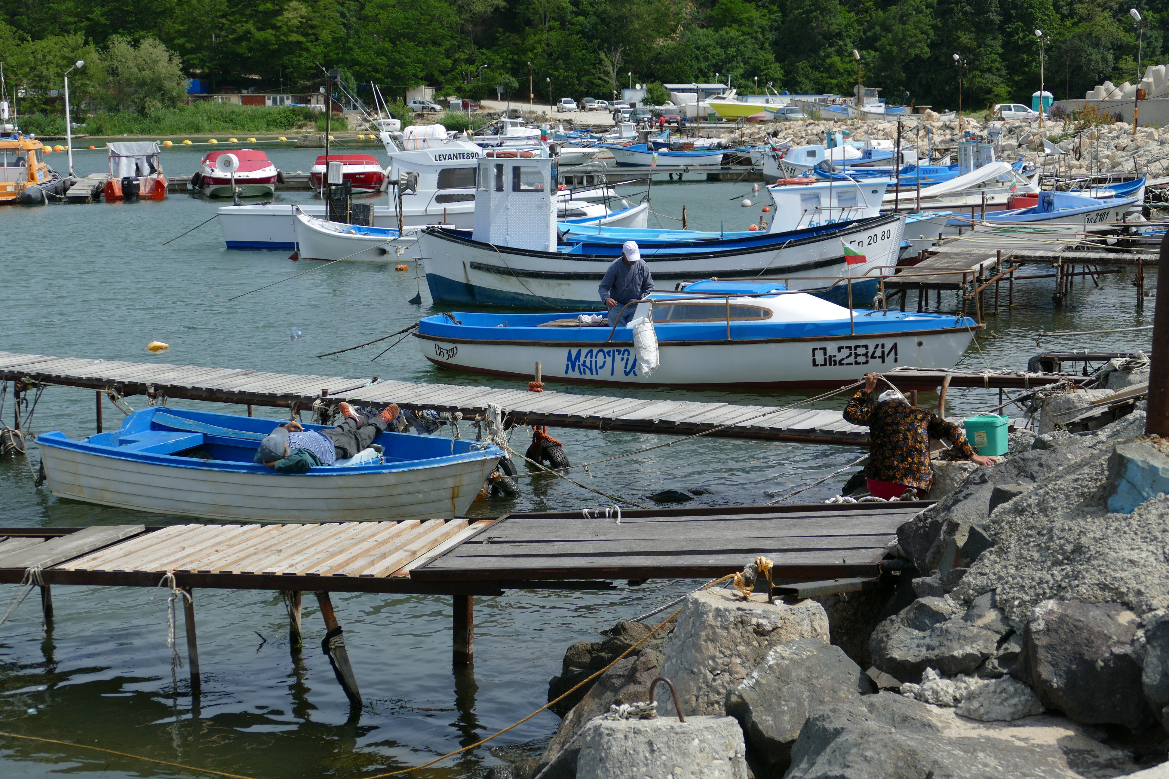 Byala harbour